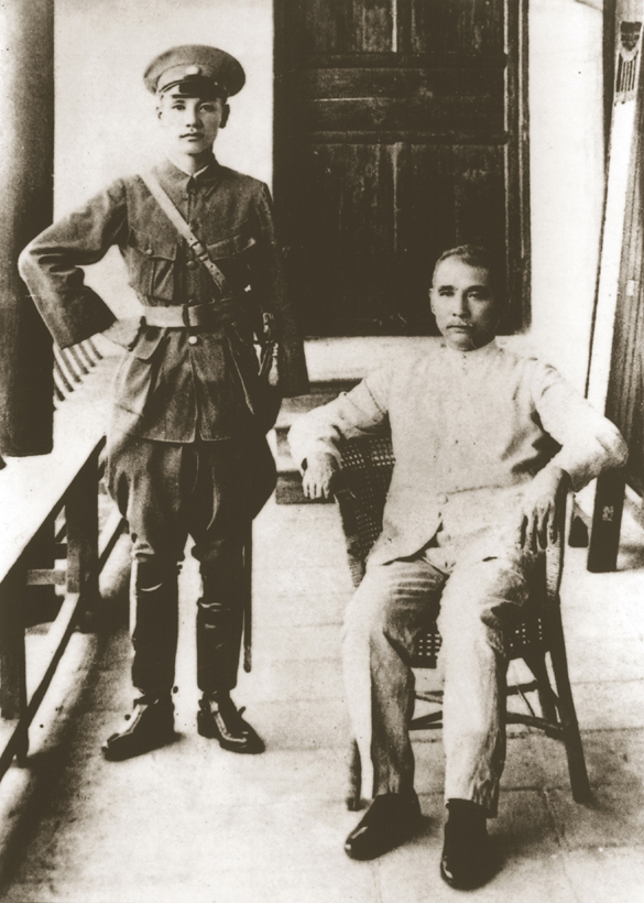 On June 16, 1924, after Sun Yat-sen opened the Whampoa Military Academy, He was taking a photo with Chiang kai-shek.中文（中国大陆）: 1924年6月16日，孙中山主持黄埔军校开学典礼后，同蒋介石合影。